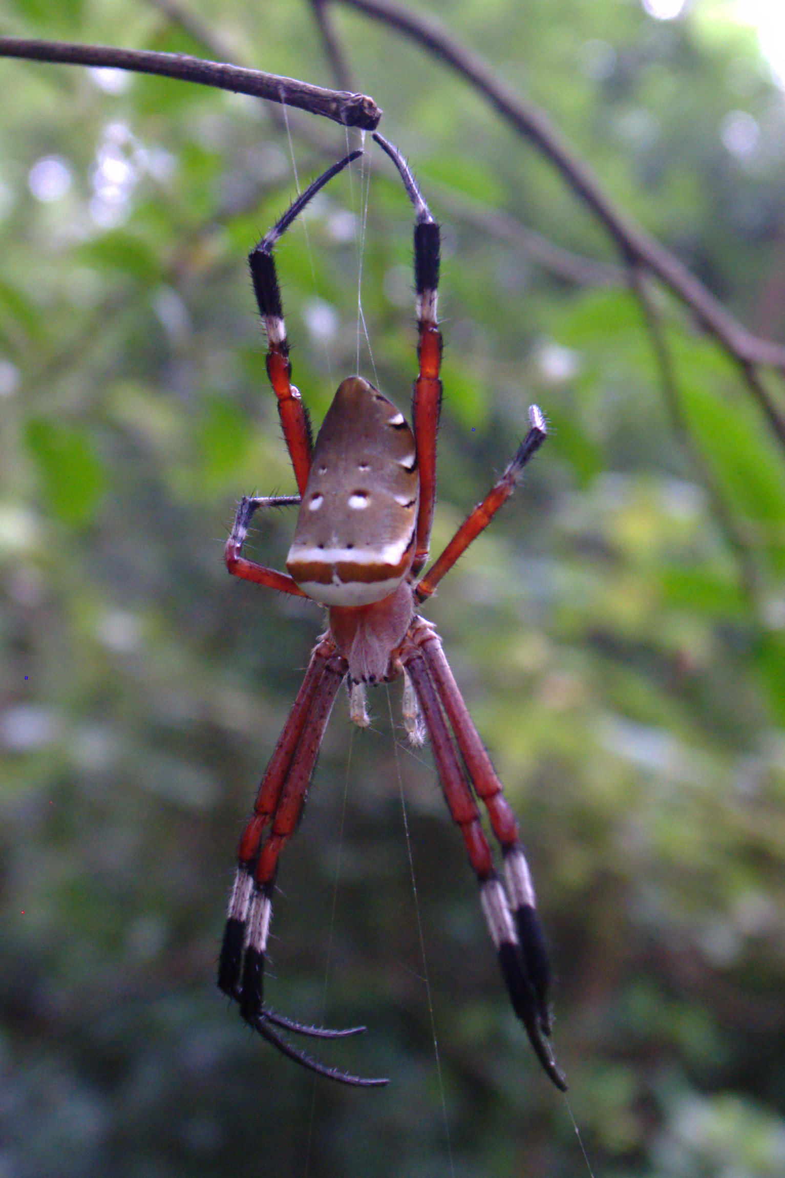 Adult female Argiope ocula 中文（台灣）: 成熟雌性眼點金蛛